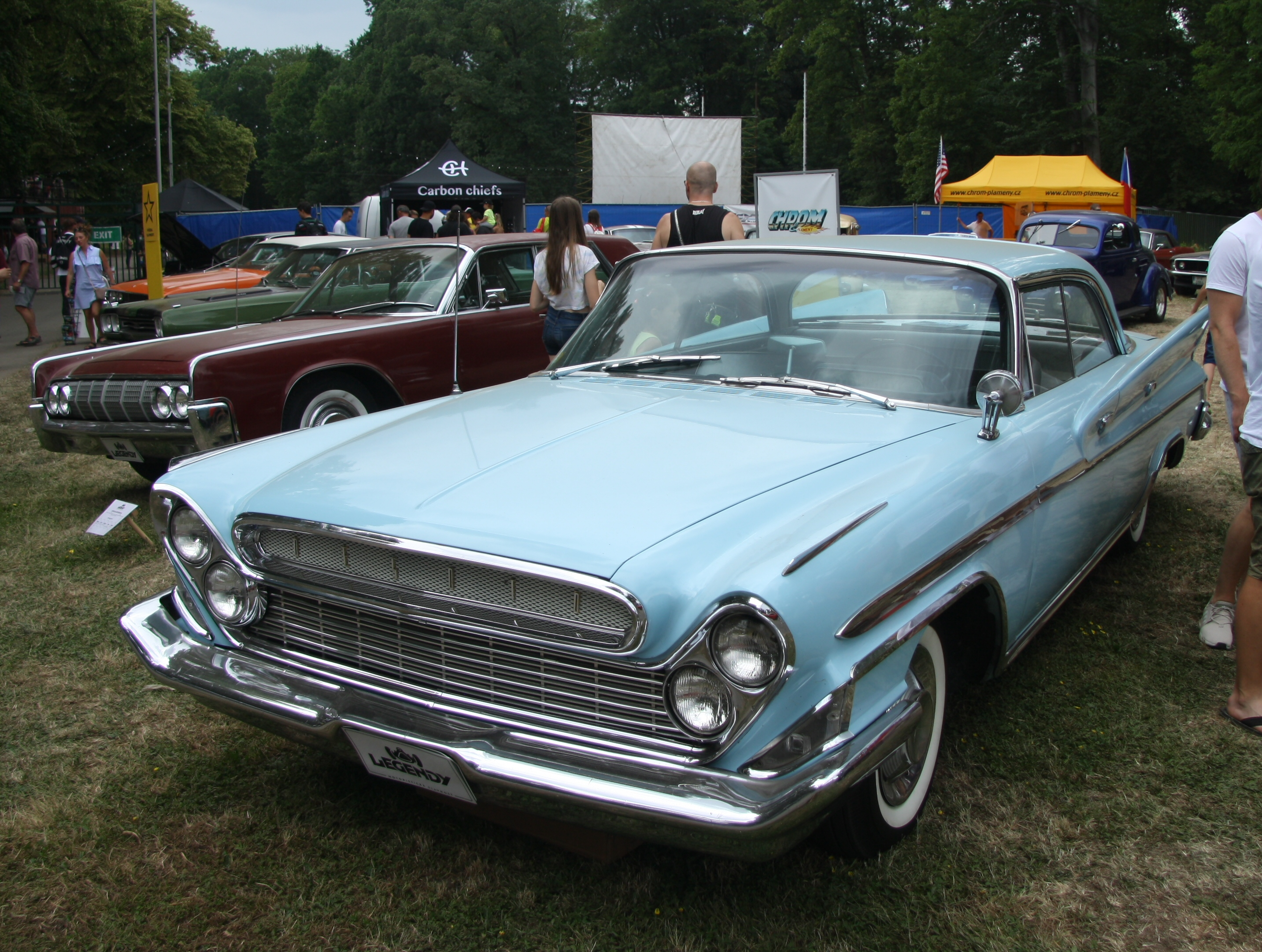 Desoto Adventure at Legendy 2018 in Prague.